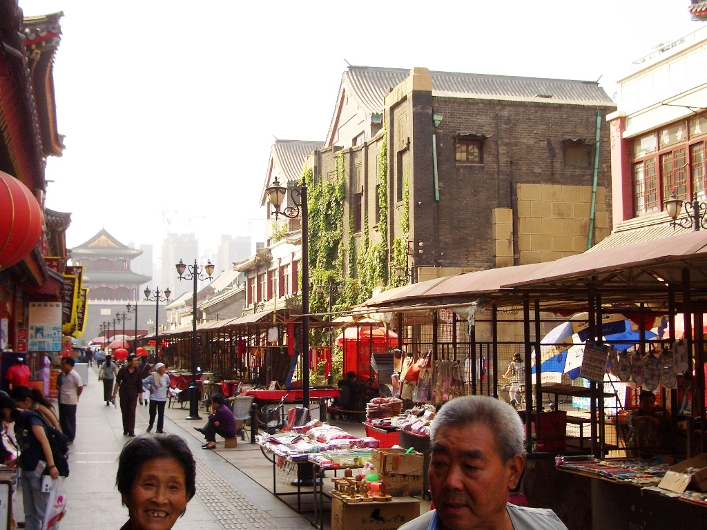 A picture of the Gulou shopping area and Drum TowerBân-lâm-gú: Thian-tin Kóo-lâu siong-gia̍p-ke. 天津鼓樓商業街